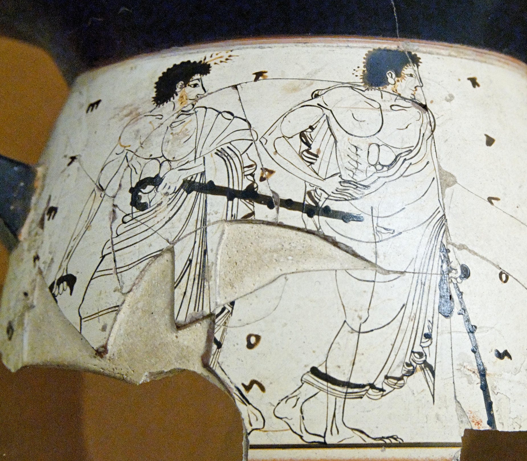 Fragment of an Attic white-ground cup showing two half-naked boys surrounded by "kalòs" inscriptions ("The boy is handsome").